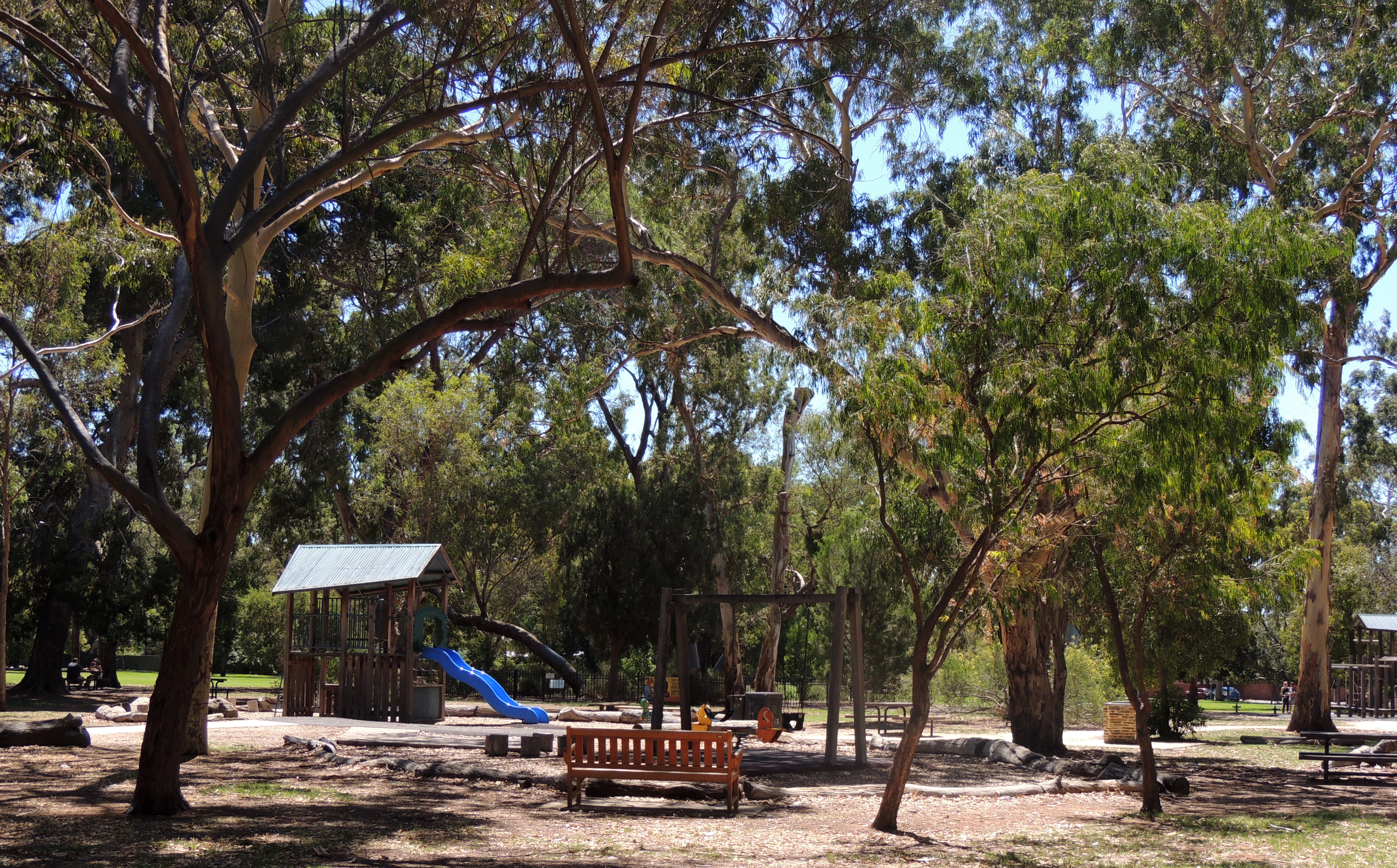 Heywood Park playground, South Australia